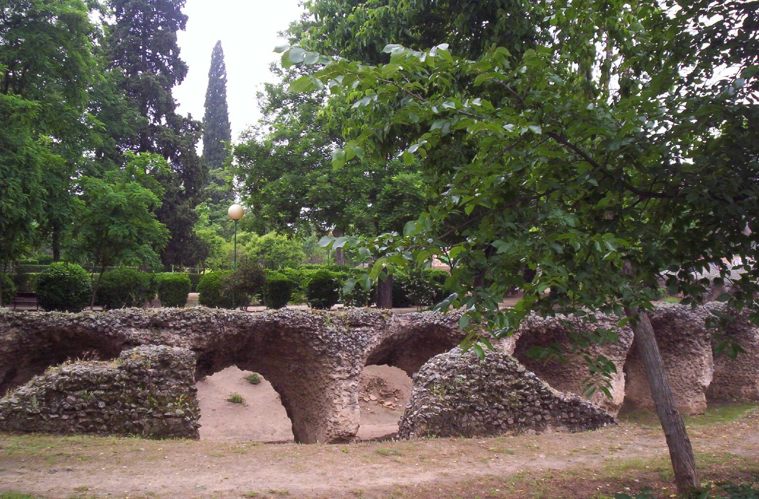 Remains of Roman circus northwest of Toledo Spain.